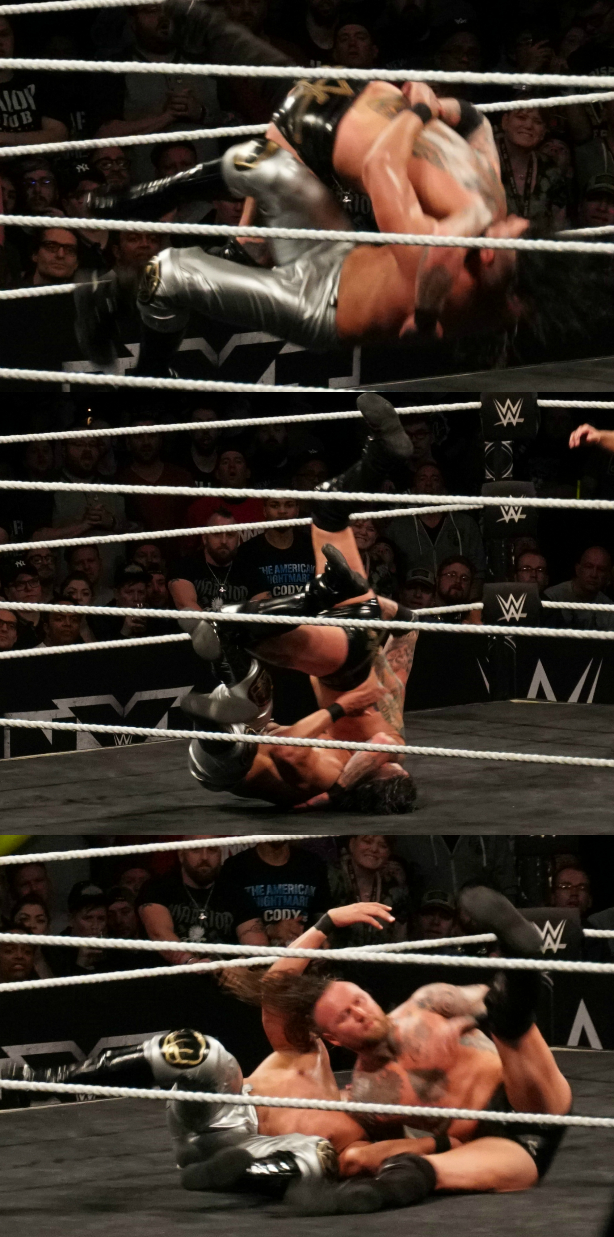 Andrade Cien Almas performs his finisher a Hammerlock DDT on Aleister Black at NXT TakeOver: New Orleans on April 7, 2018